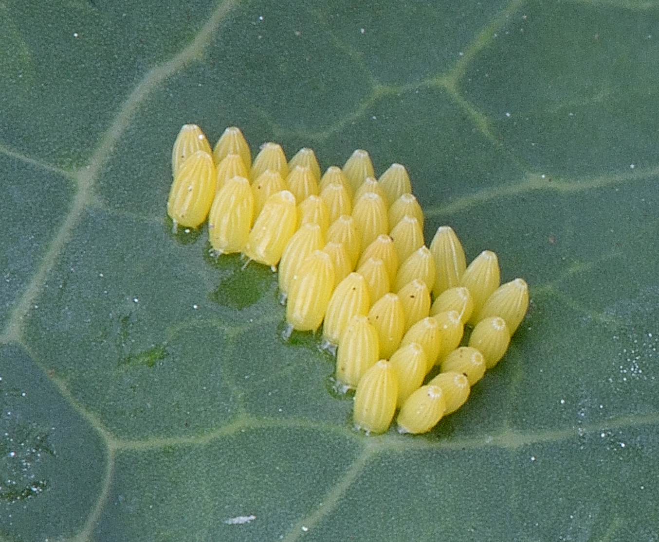 Pieris brassicae eggs